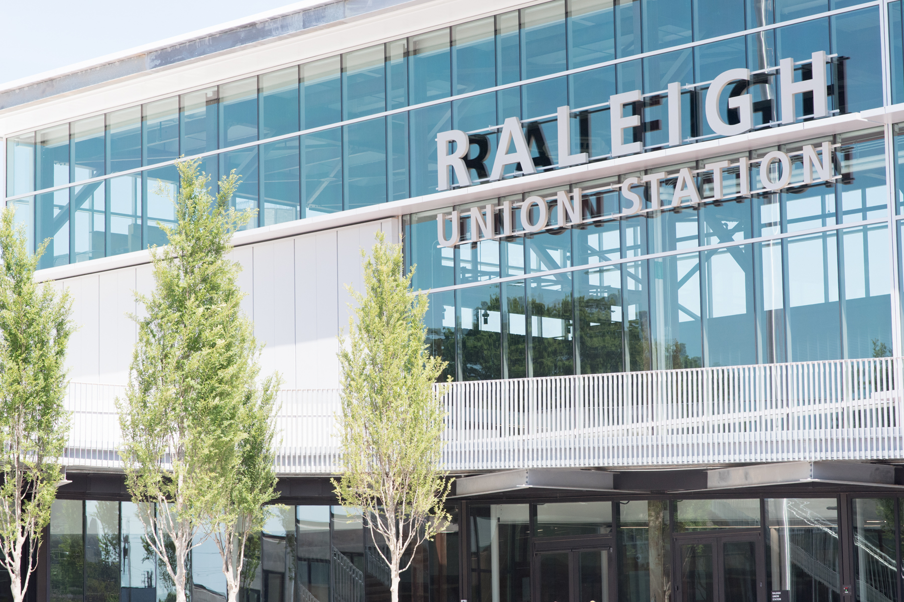 North Carolina Department of Transportation Board tours the new Raleigh Union Train Station on 5.02.18.